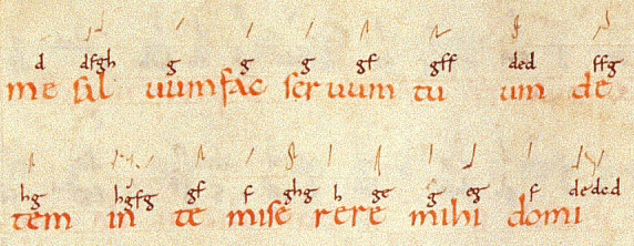 Digraphic neumes, in an 11th-century manuscript from Saint-Bénigne de Dijon (detail)